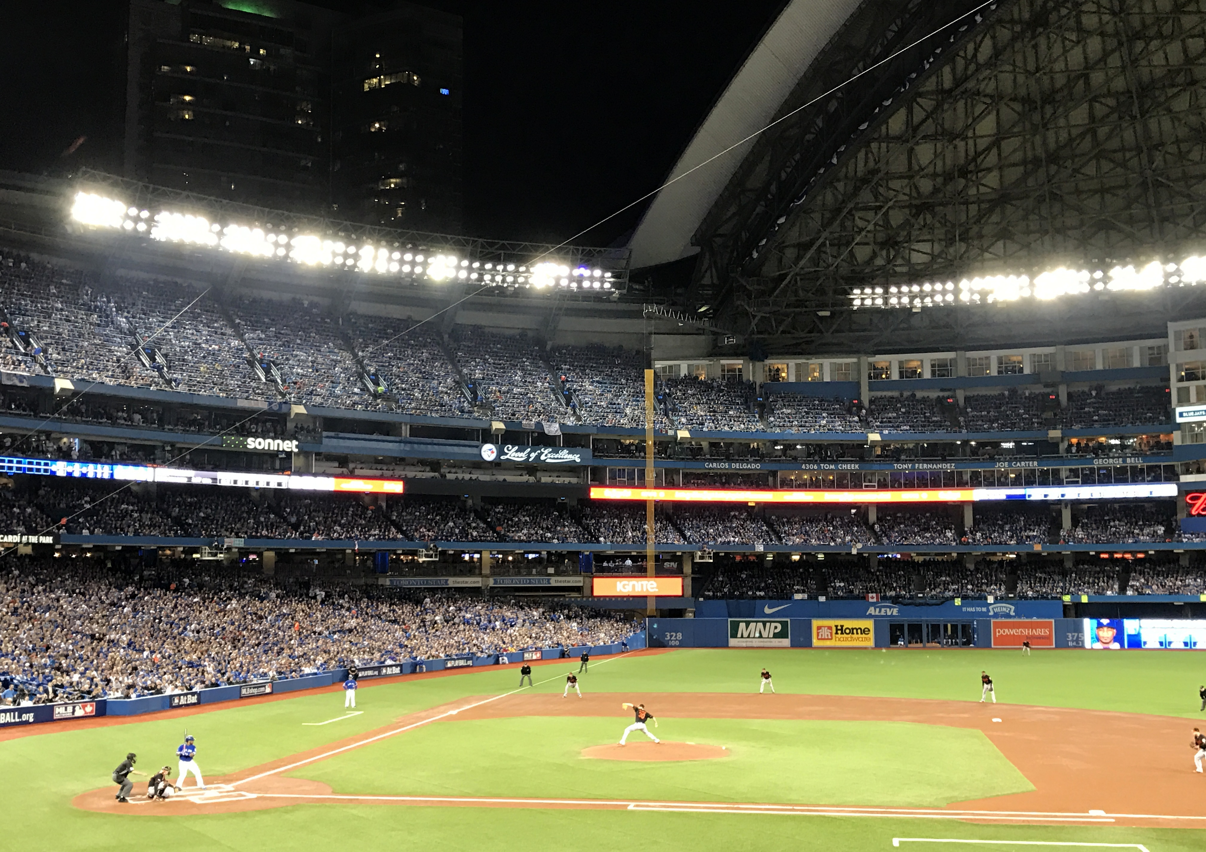 The Blue Jays host the Orioles in the AL Wild Card Game. Shot on an iPhone 7.